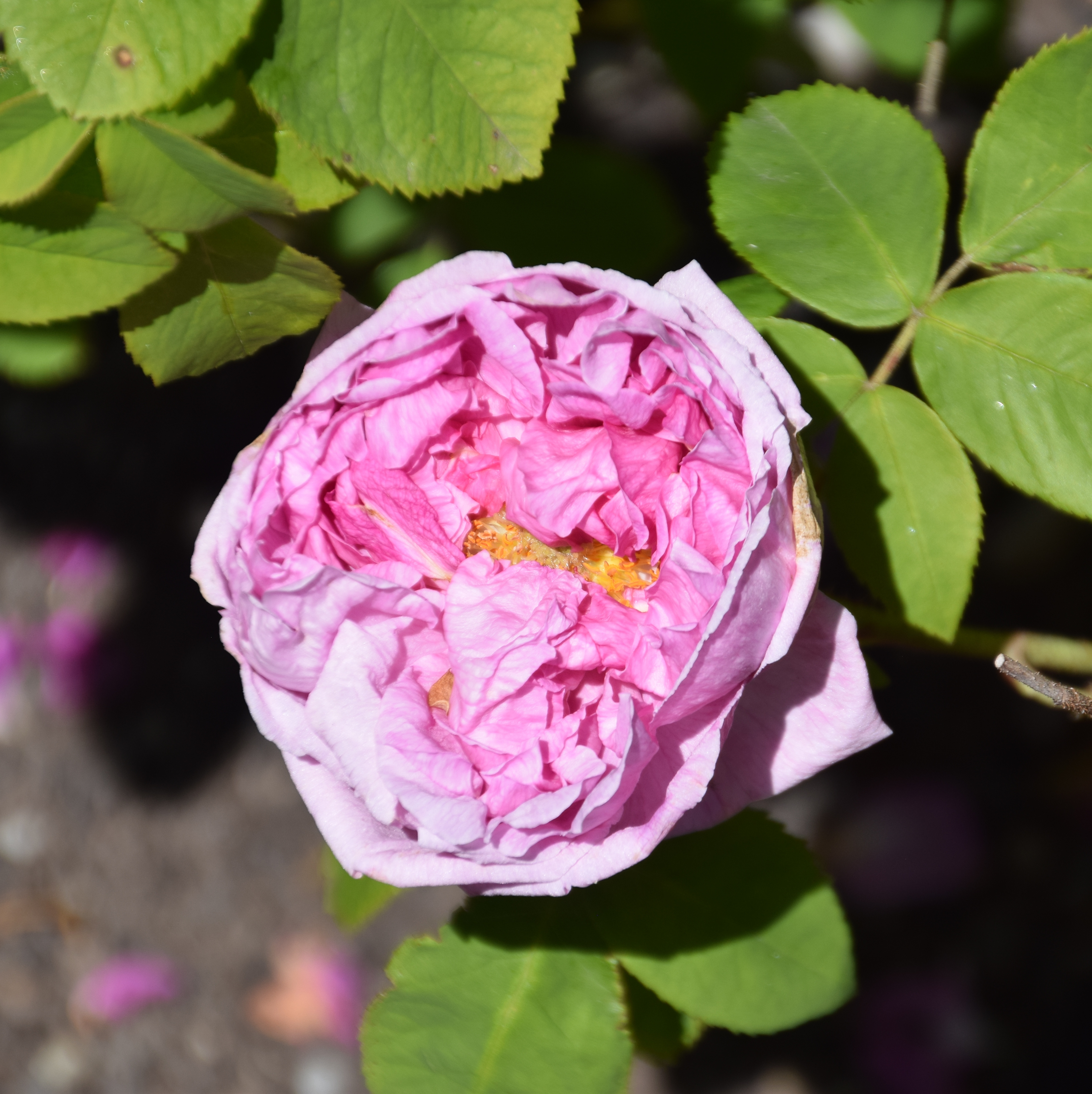 Rosa 'Belle Amour' in Dunedin Botanic Garden, Dunedin, New Zealand